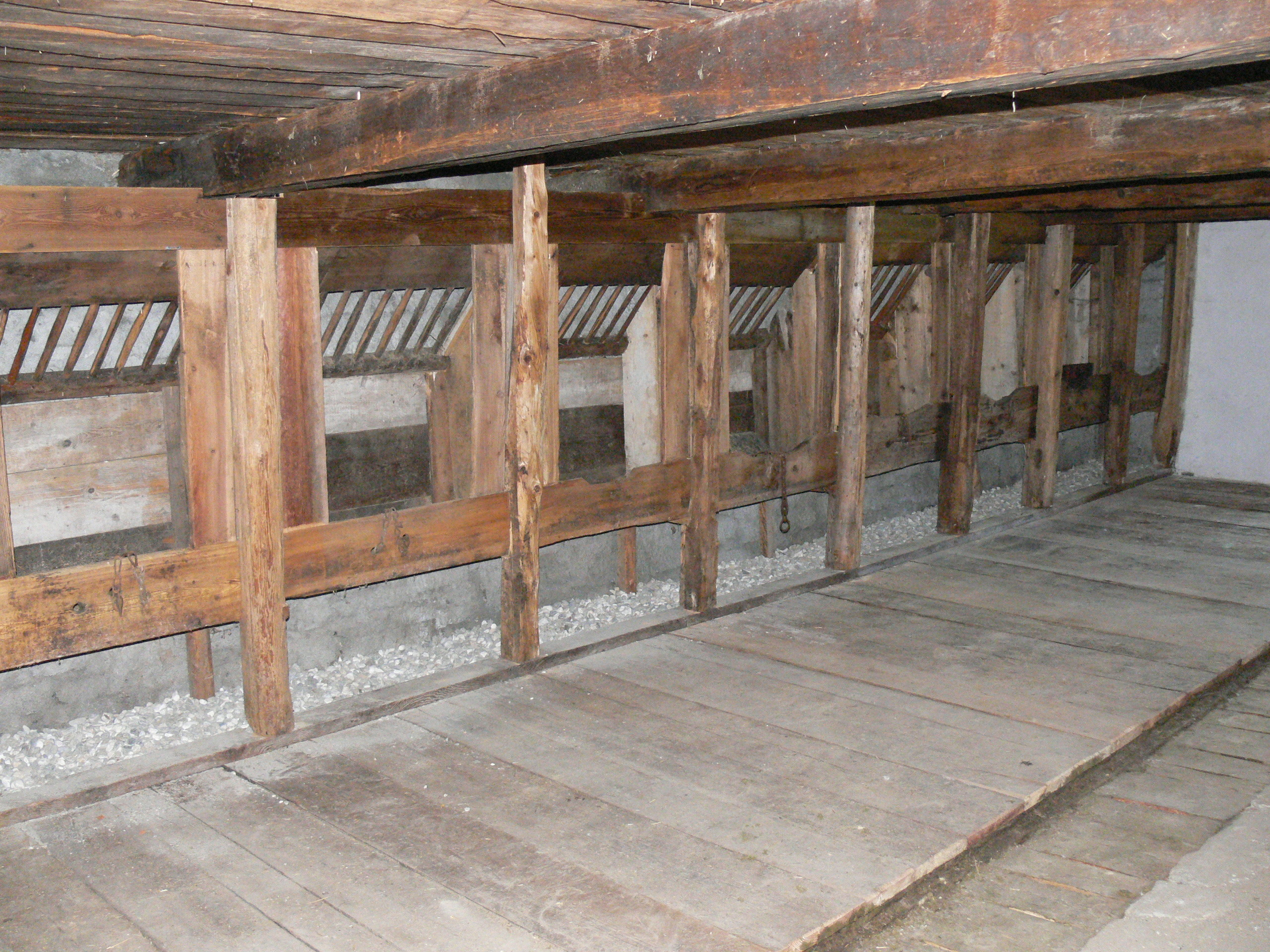 Ethnographic Museum at Dietenheim ( South Tyrol ). So called "Futterhaus" from Ahrntal: Stable with boxes for cattle.